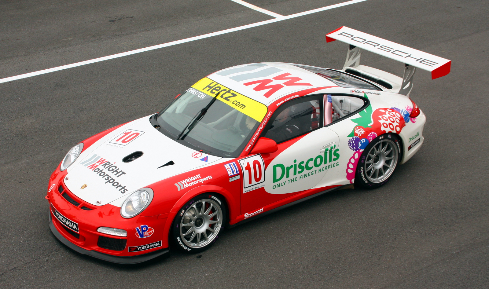 Porsche 997 GT3 Cup of Wright Motorsports heading to the grid.